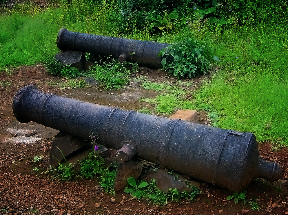 Fort of Raigad